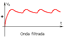 A diagram of partially filtered half-wave rectified AC voltage, making it an approximation of DC voltage.